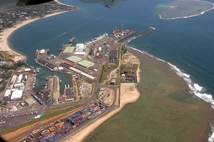 The port of Toamasina (Tamatave) serves as the most important gateway of Madagascar to the Indian Ocean and the world.